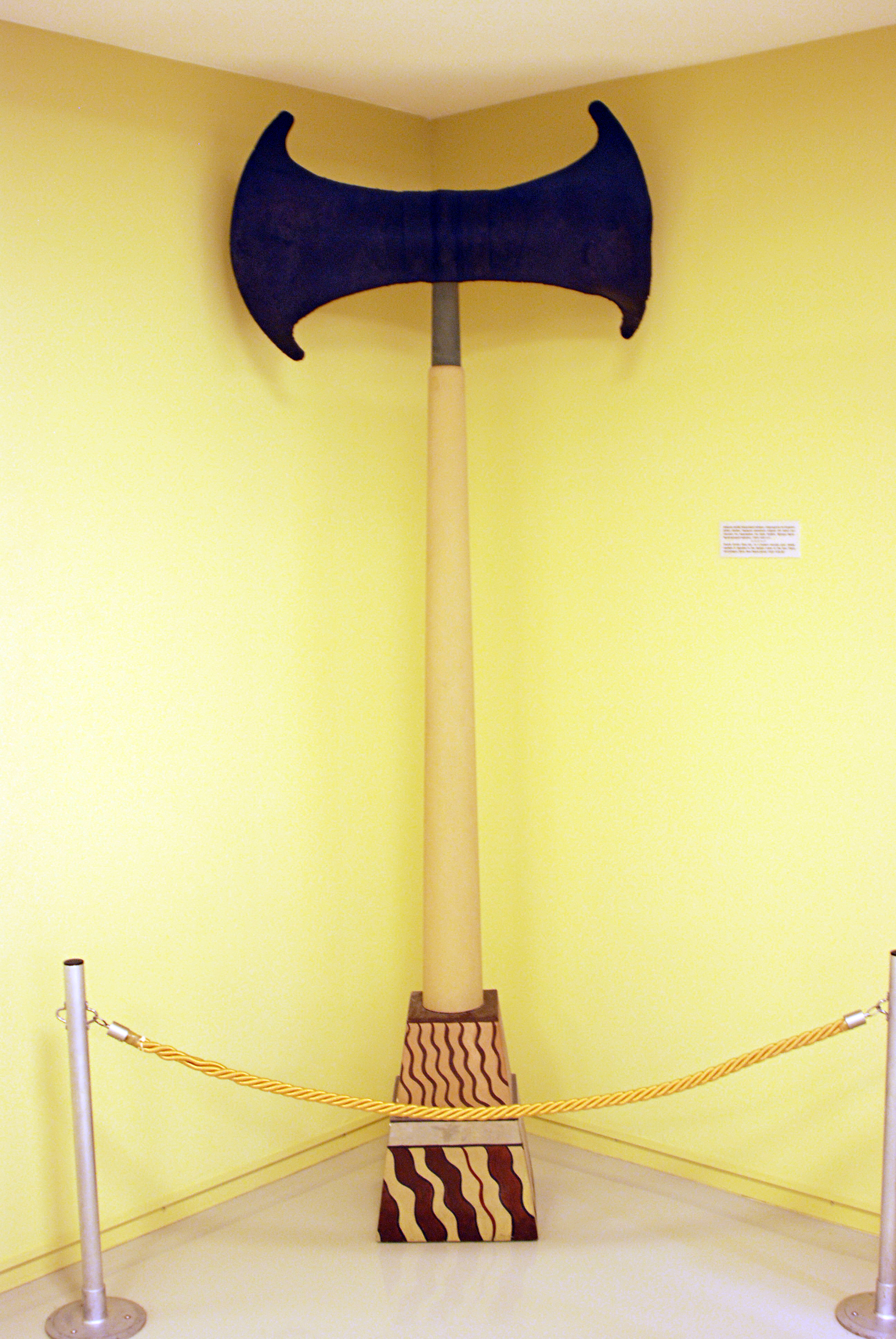 Minoan Labrys: The term, and the symbol, is most closely associated in historical records with the Minoan civilization, which reached its peak in the 2nd millennium BC. Some Minoan labrys have been found which are taller than a human and which might have been used during sacrifices. The sacrifices would likely have been of bulls. The labrys symbol has been found widely in the Bronze Age archaeological recovery at the Palace of Knossos on Crete.[3] According to archaeological finds on Crete this double-axe was used specifically by Minoan priestesses for ceremonial uses. Of all the Minoan religious symbols, the axe was the holiest. To find such an axe in the hands of a Minoan woman would suggest strongly that she held a powerful position within the Minoan culture.